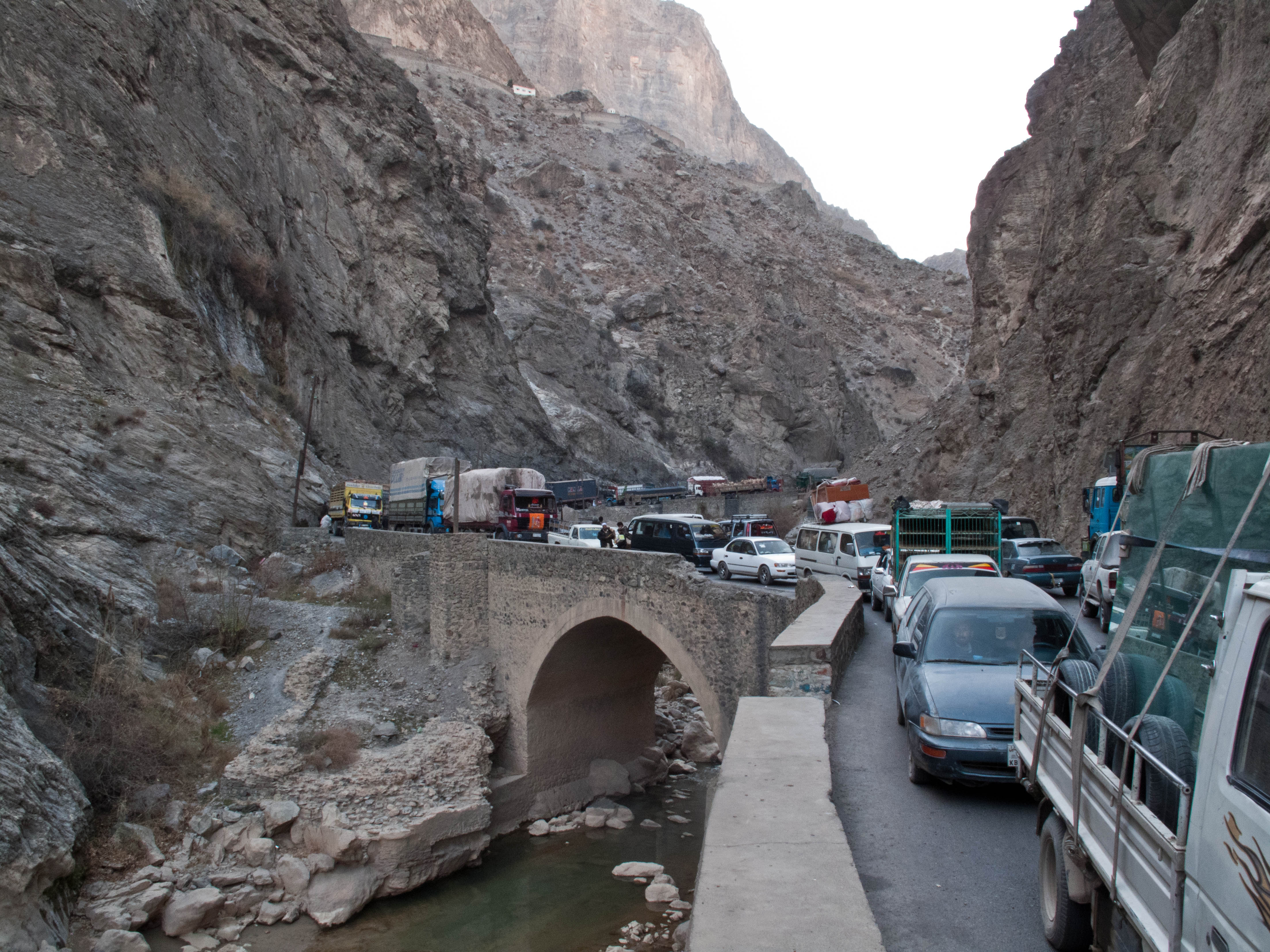 Gridlock on the Kabul Jalalabad Highway